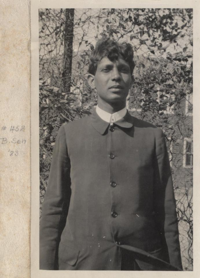 Basiswar Sen or Boshi Sen was a reputed scientist and agriculturist from India and intimately related to Ramakrishna Order